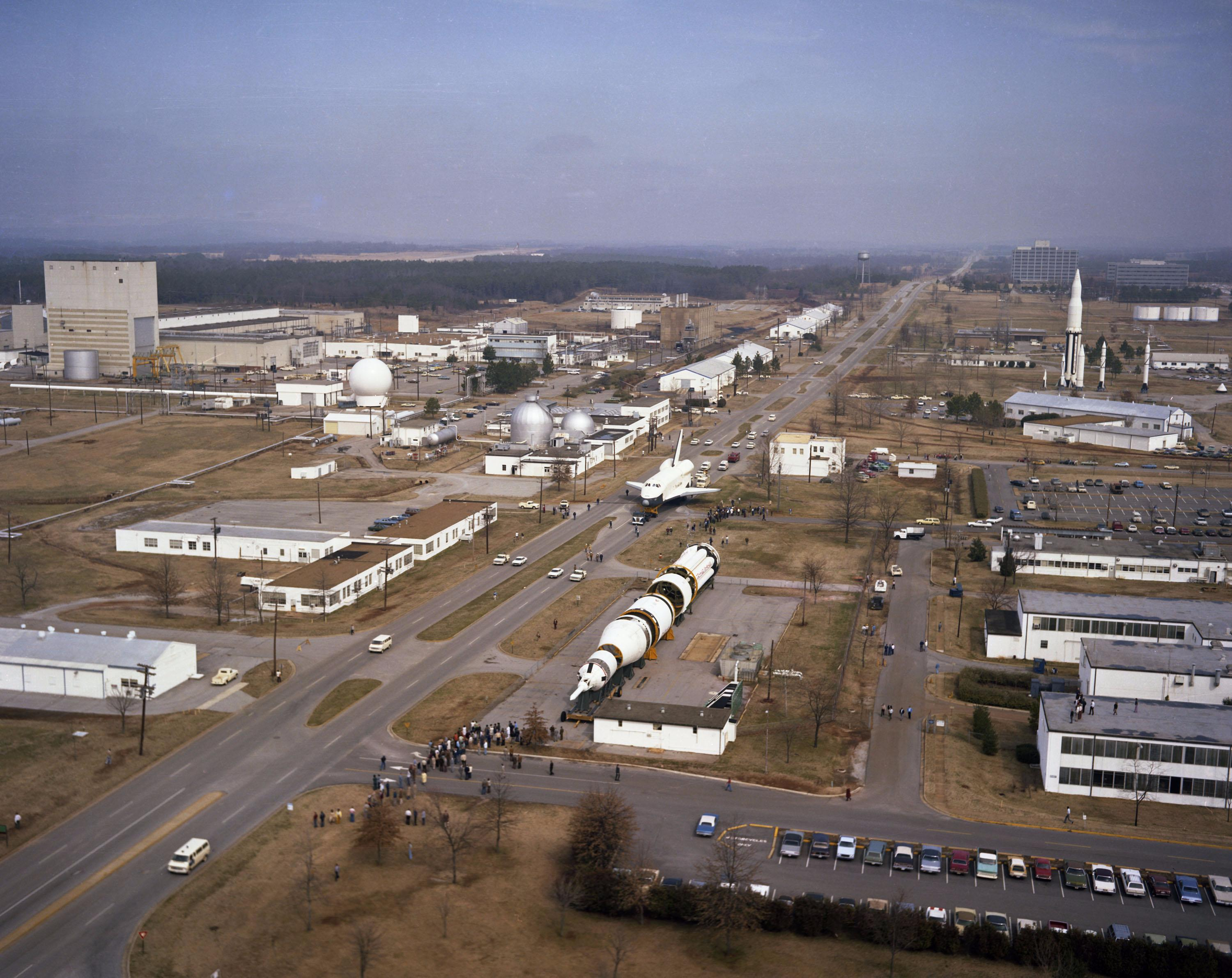 This March 15, 1978, photo of the George C. Marshall Space Flight Center shows the Space Shuttle Orbiter Enterprise being towed on Rideout Road to Building 4755 for later testing at the Dynamic Test Stand (not visible in photo) for vibration testing as part of the Mated Vertical Ground Vibration tests (MVGVT). The tests marked the first time ever that the entire shuttle complement (including Orbiter, external tank, and solid rocket boosters) were mated vertically. Here, it has just passed Building 4732, the Aero-Astrodynamics Laboratory, on its right. The tall building in the distance is Marshall's main administrative office building.